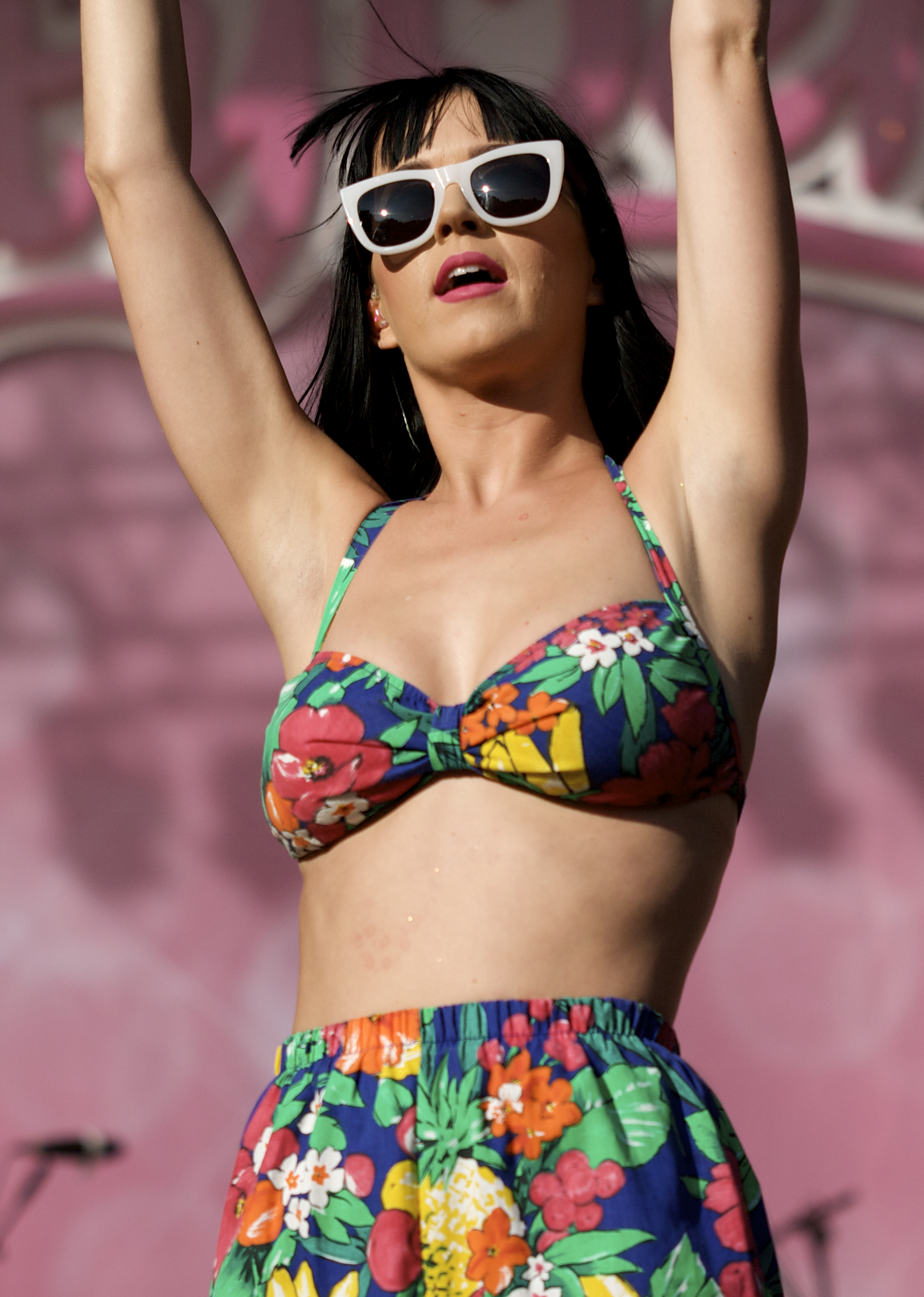 American pop-artist, Katy Perry.